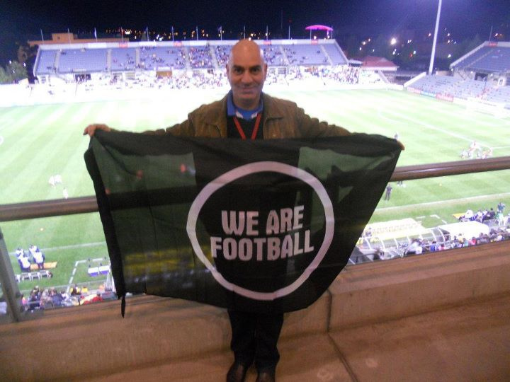 For more information on the WE ARE FOOTBALL campaign, check out Australian Football on facebook at